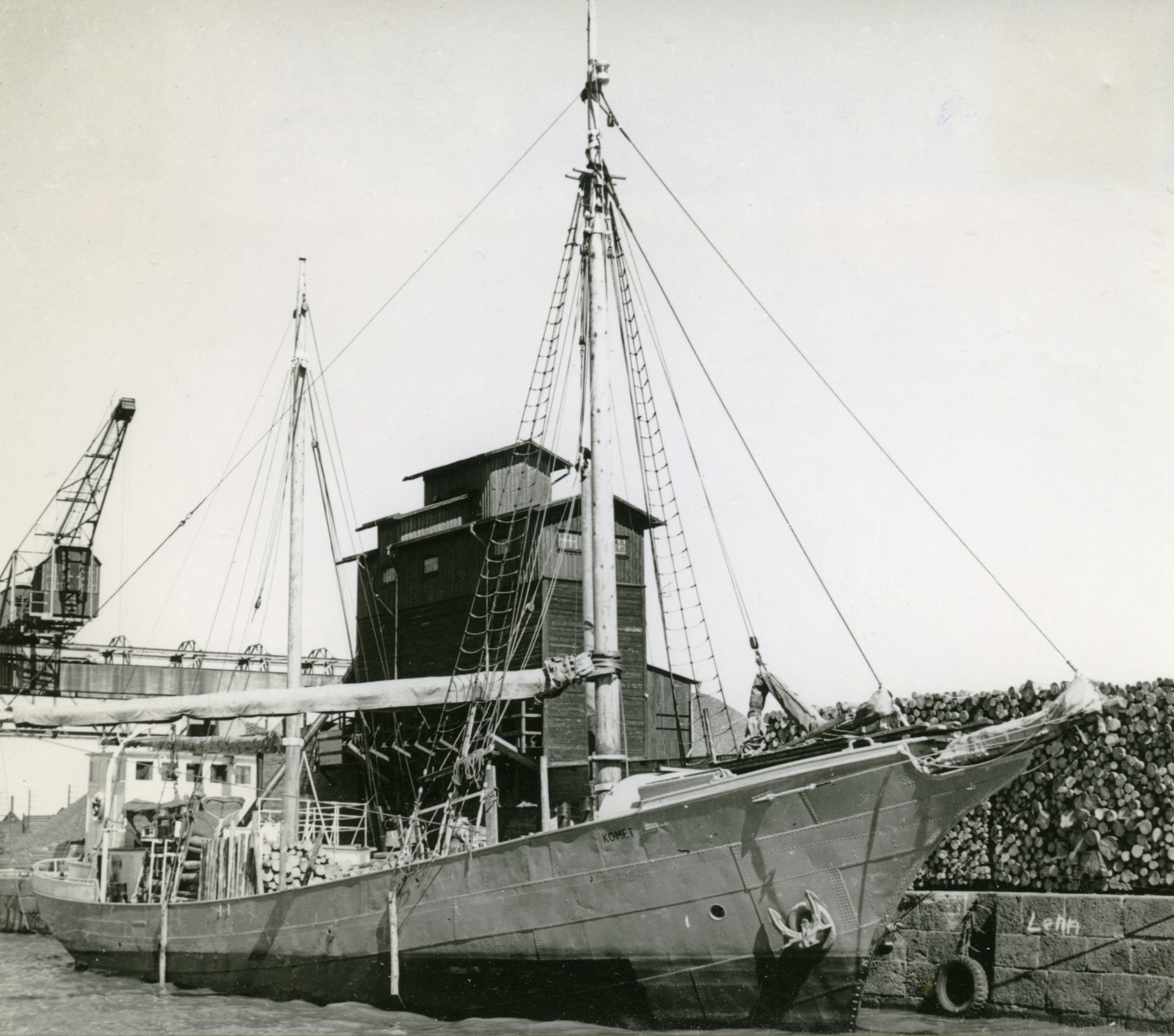 Vessel: KOMET Overall width: 6.25m Overall length: 28.26m Registration Number: 7089 Owner: Johansson, Evald Gerhard Year Built: 1920 Yard: Germania-Werft, Kiel (Deutschland) Originally MARY. Renamed FAMILIENS HABB (1922), KOMET (1923), CARTHAGINIAN II (1972), CARTHAGINIAN (1973)